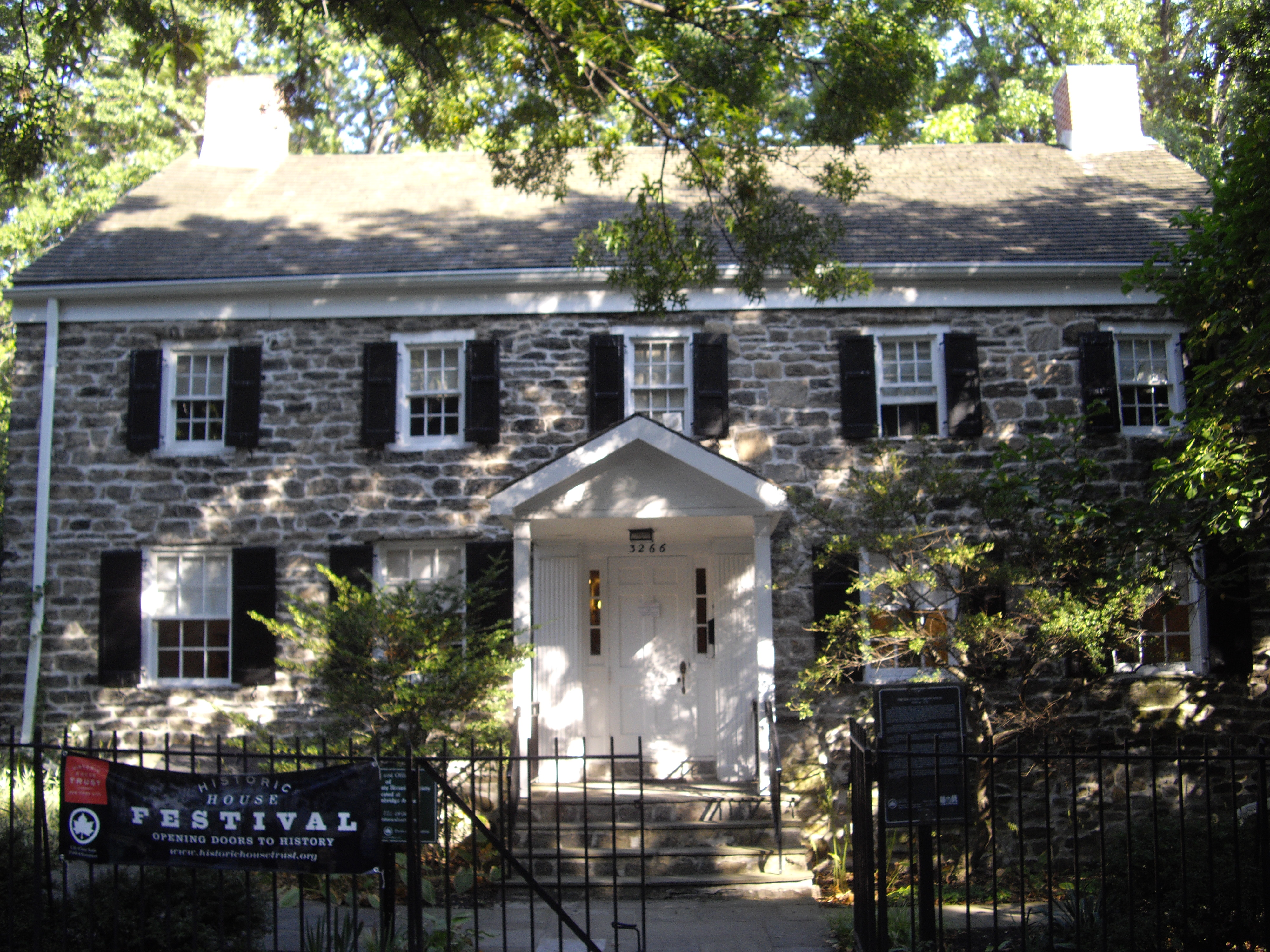 Valentine-Varian House at 3266 Bainbridge Avenue on the west side of the former Williamsbridge Reservoir in Norwood, The Bronx. NYCLPC designation 1966.